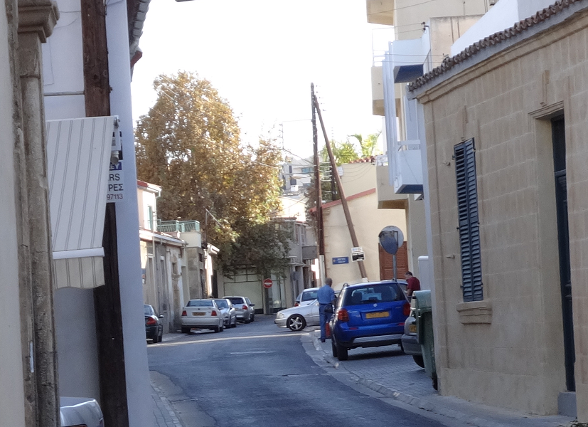 View of Ayii Omoloyites Avenue looking south in the direction of Ayii Omoloyites church and school (not in view). Greek name, transliterated in the Latin alphabet, is Leoforos Agion Omologiton. To accompany the article on the village now neighbourhood of Ayii Omoloyites, Nicosia Other information This is the road that runs through the historic centre of Ayii Omoloyites, passing by the church of that name. Its name includes the word Leoforos, which translates as Avenue (major thoroughfare)